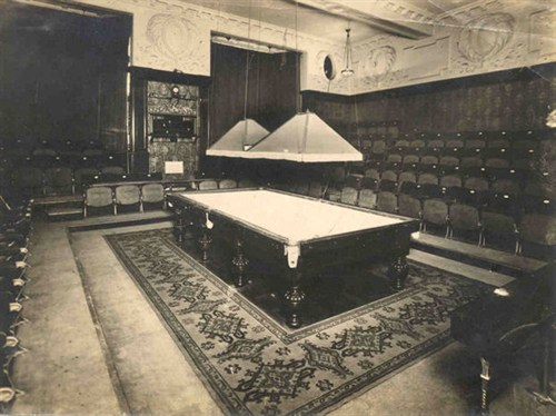 Thurstons Hall